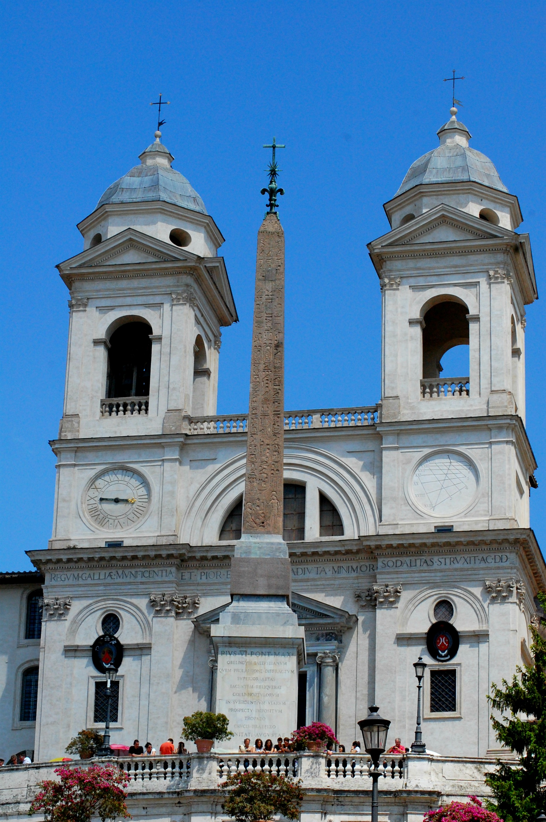 The Sallustiano Obelisk in front of the Trinità dei Monti|, at the top of the Spanish Steps in Rome.